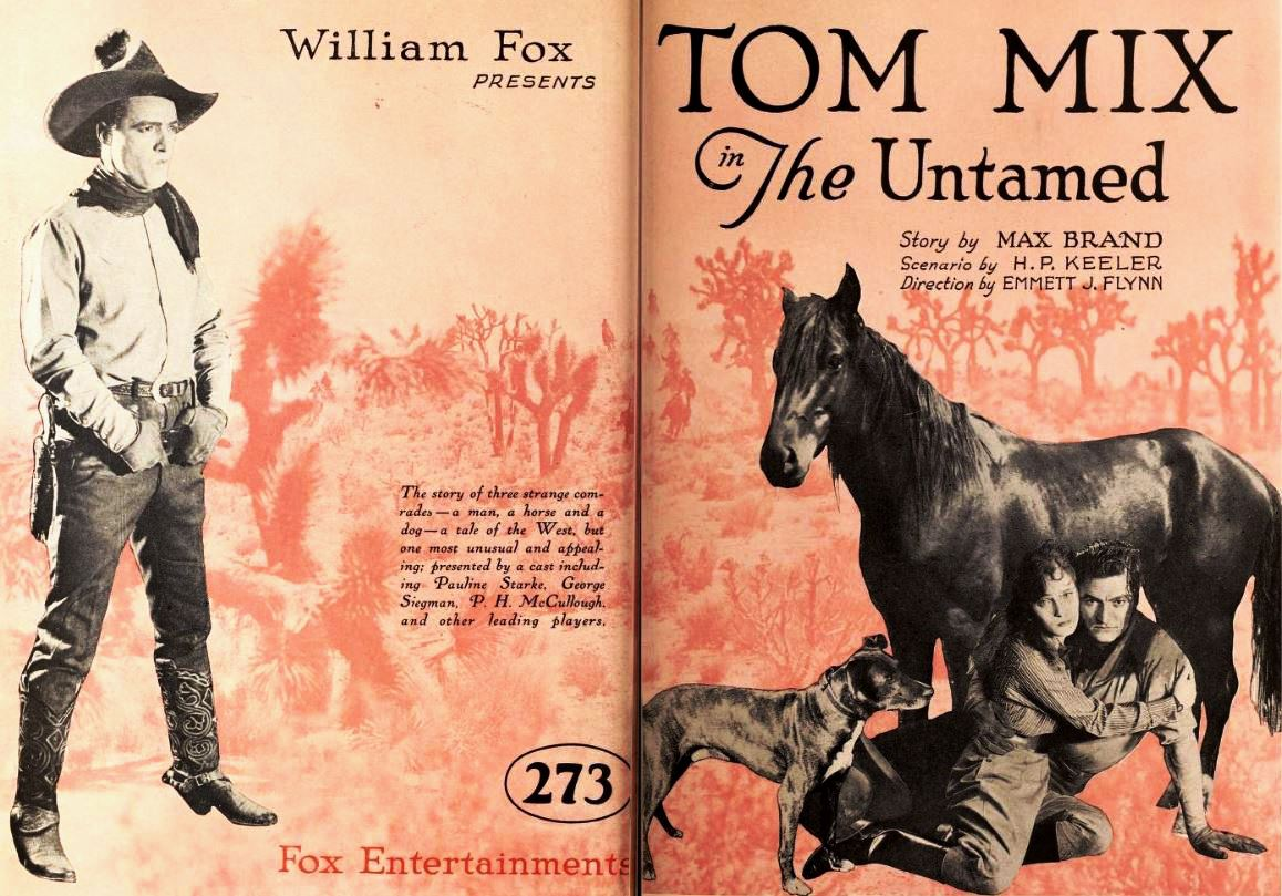 Advertisement for the American western film The Untamed (1920) with Tom Mix and Pauline Starke, from an insert after page 66 of the August 14, 1920 Exhibitors Herald.